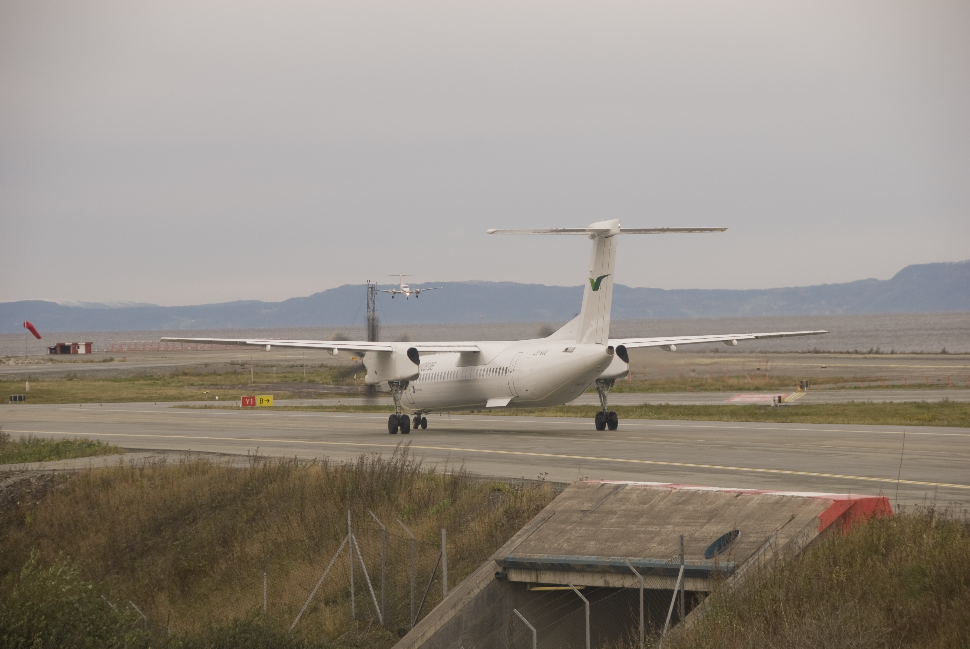 Widerøe Bombardier Dash 8-400 LN-WDU and Lufttransport Beechcraft King Air LN-MOF at Trondheim Airport, Værnes